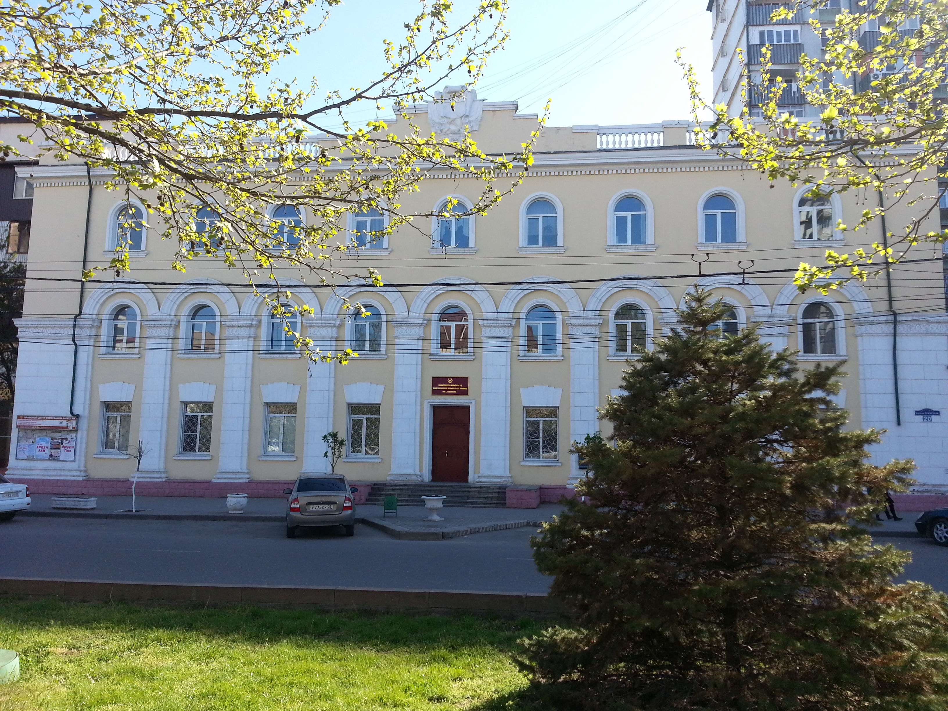 Ministry of Culture of Dagestan